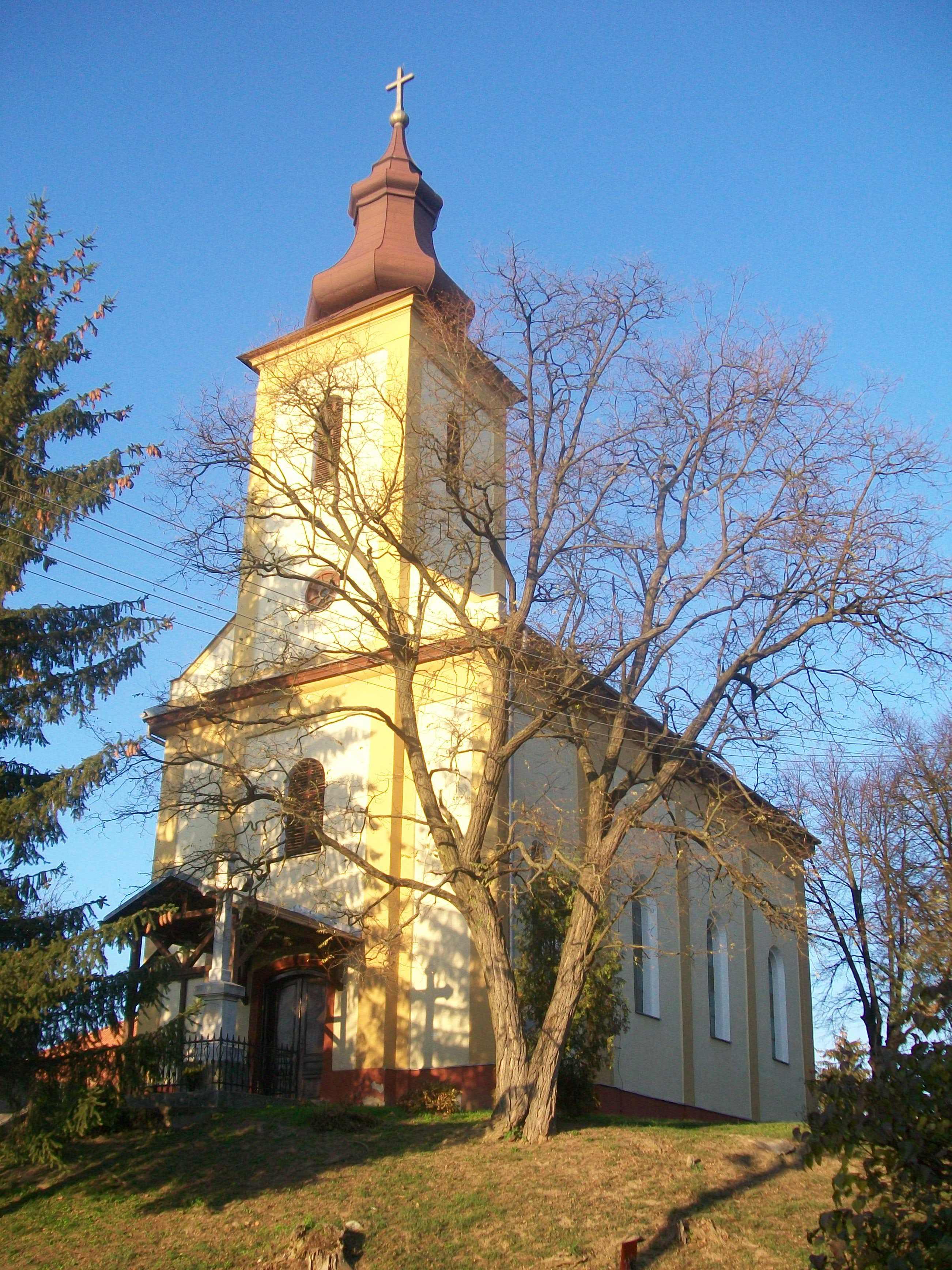 The Church Of The Holy Trinity in the village Panické DravceSlovenčina: Kostol Najsvätejšej Trojice v obci Panické Dravce